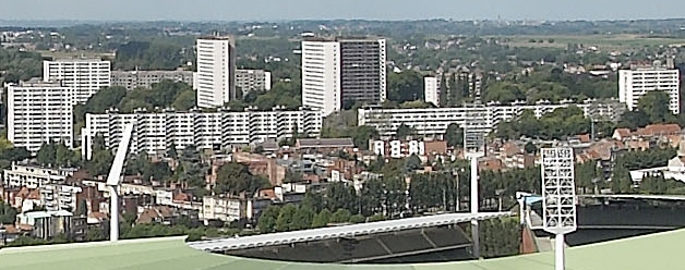 Model city of Braem in Laken, Brussels seen from within the Atomium